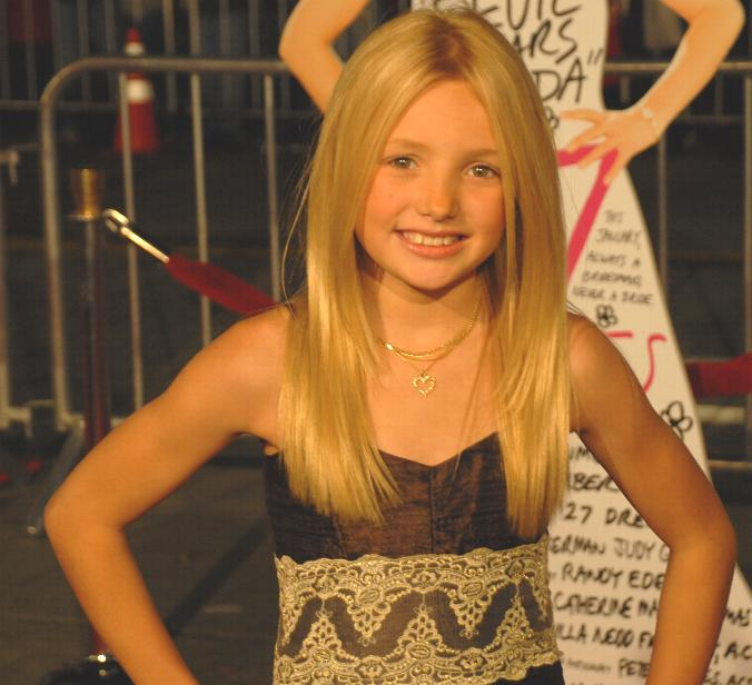 Actress Peyton Roi List at the premiere of "27 Dresses"